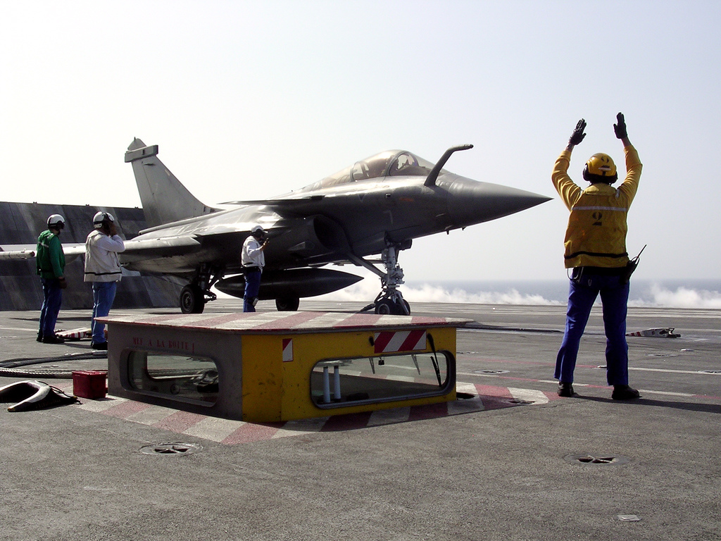 Nuclear aircraft carrier Charles de Gaulle (R 91)